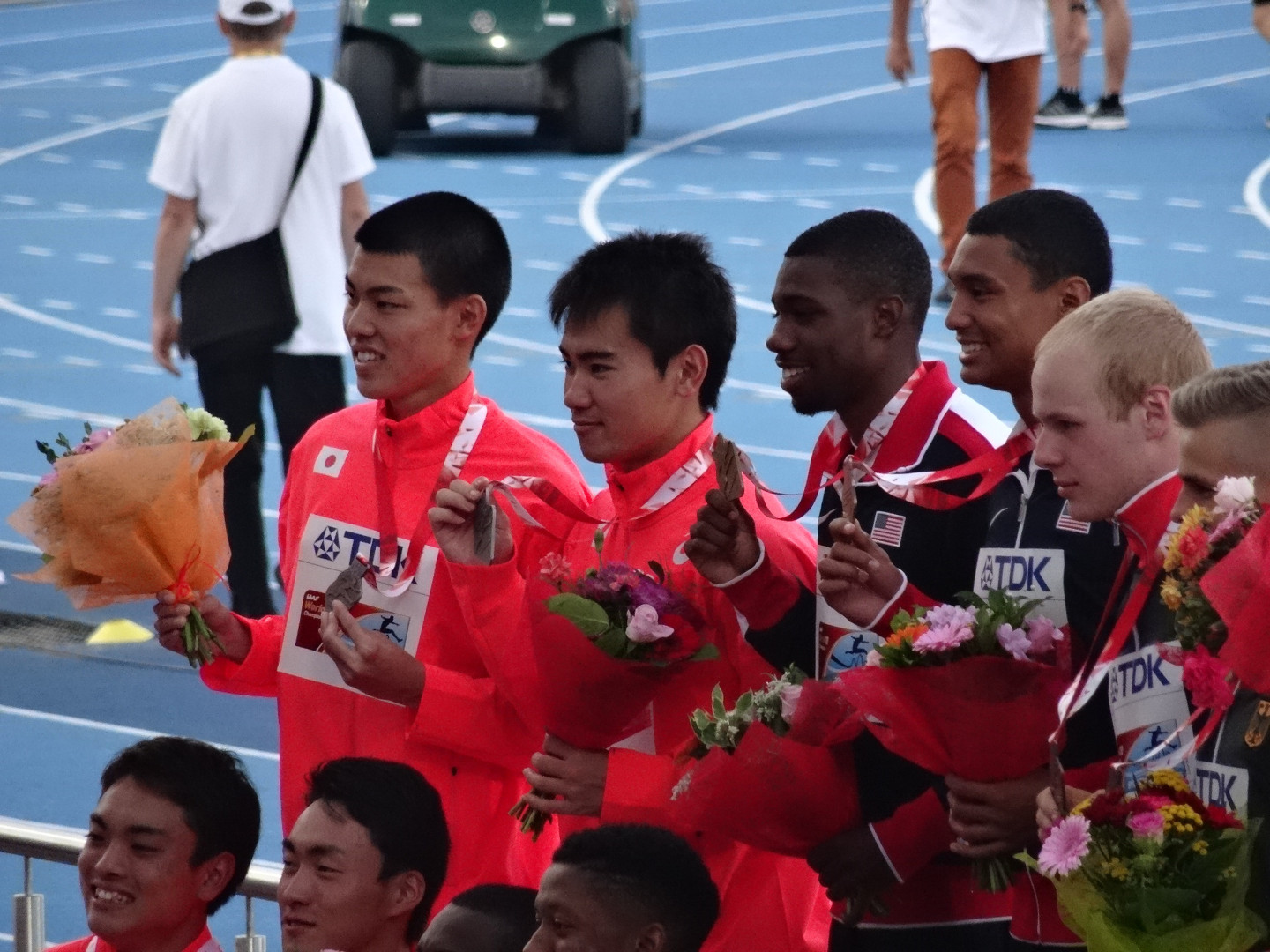 2016 IAAF World U20 Championships in Bydgoszcz, 4x100m relay men final